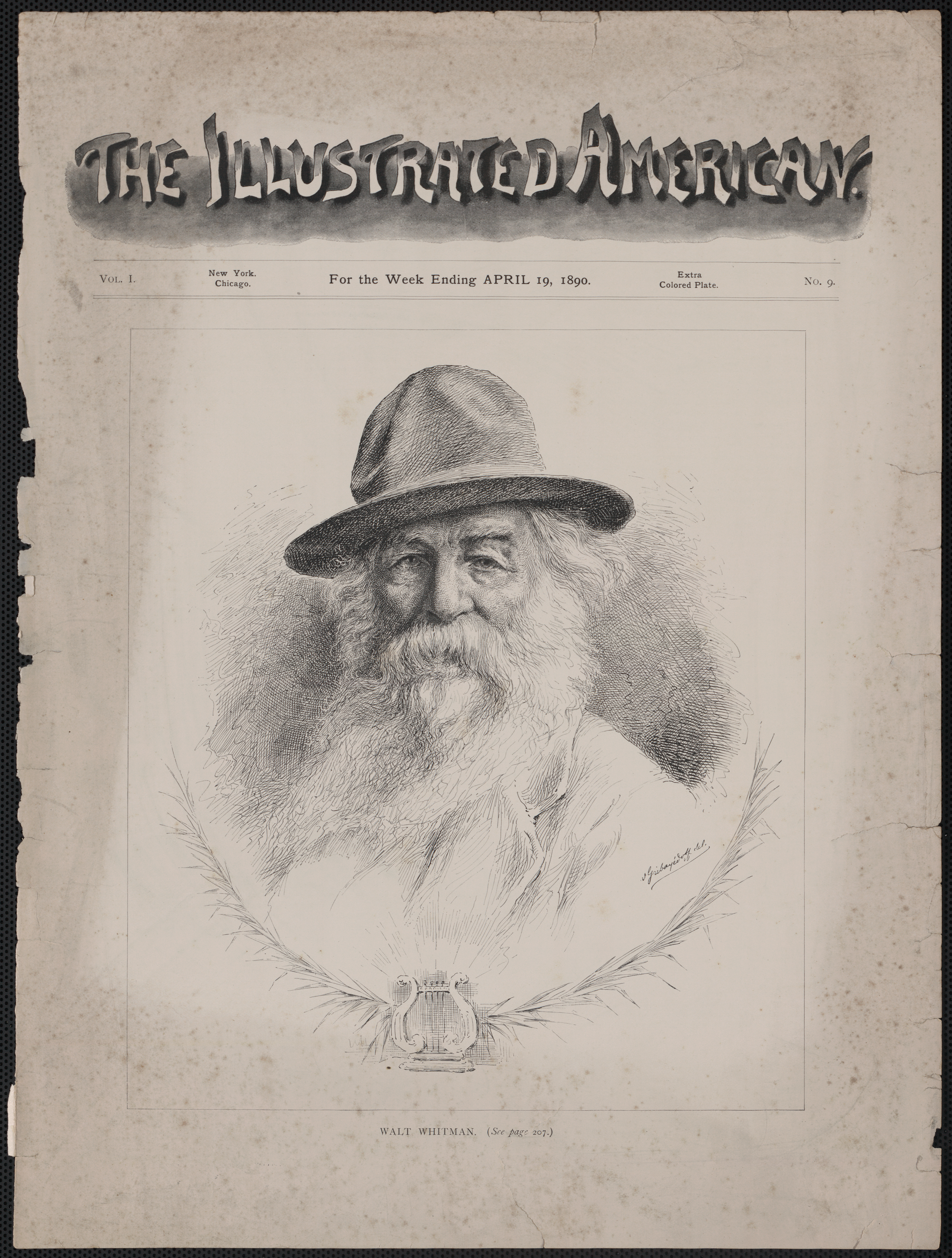 Title: Walt Whitman / V. Gribayédoff del. Abstract/medium: 1 print.